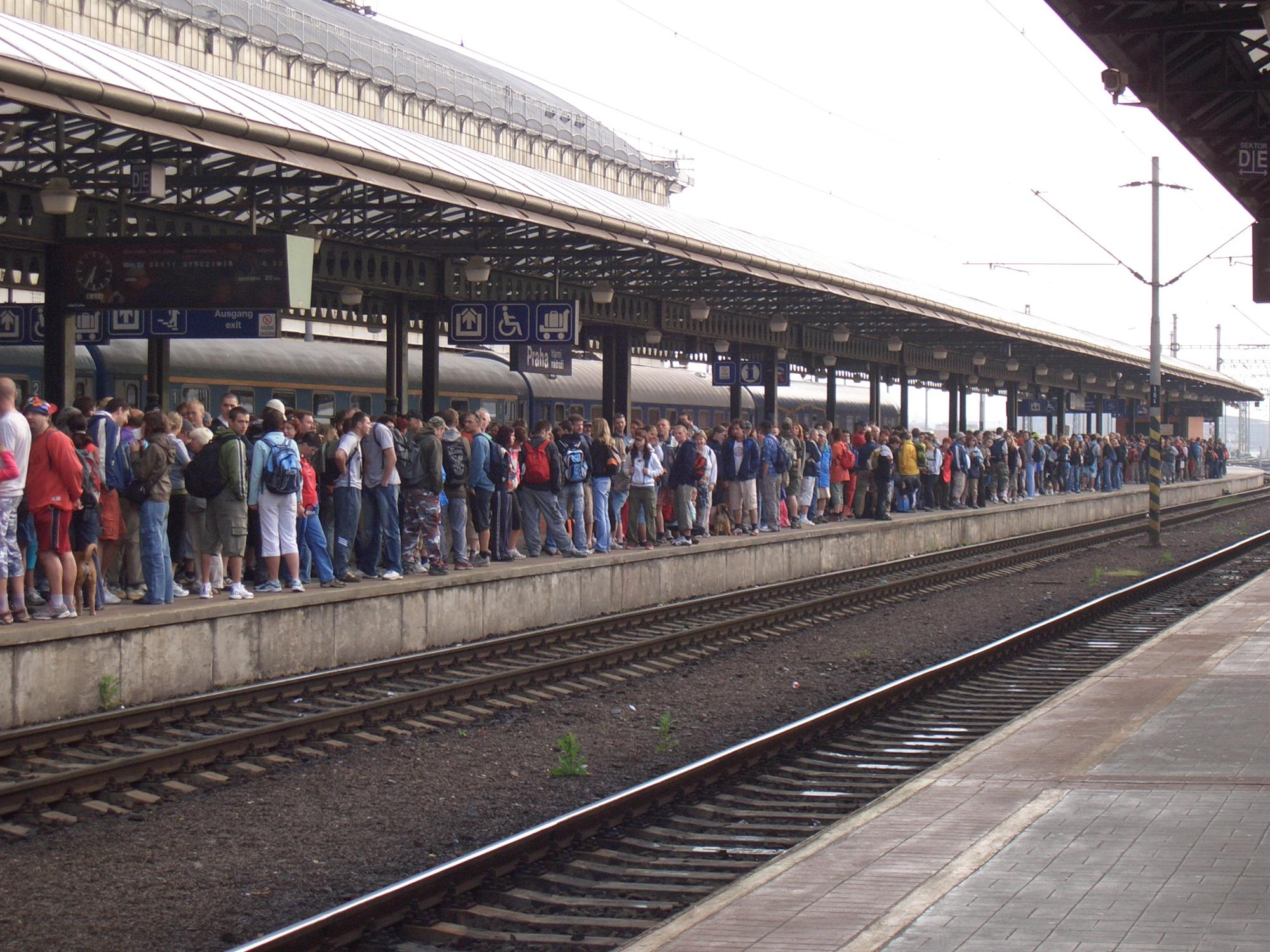 Many people on Prague main station, who travel to Pochod Praha-Price